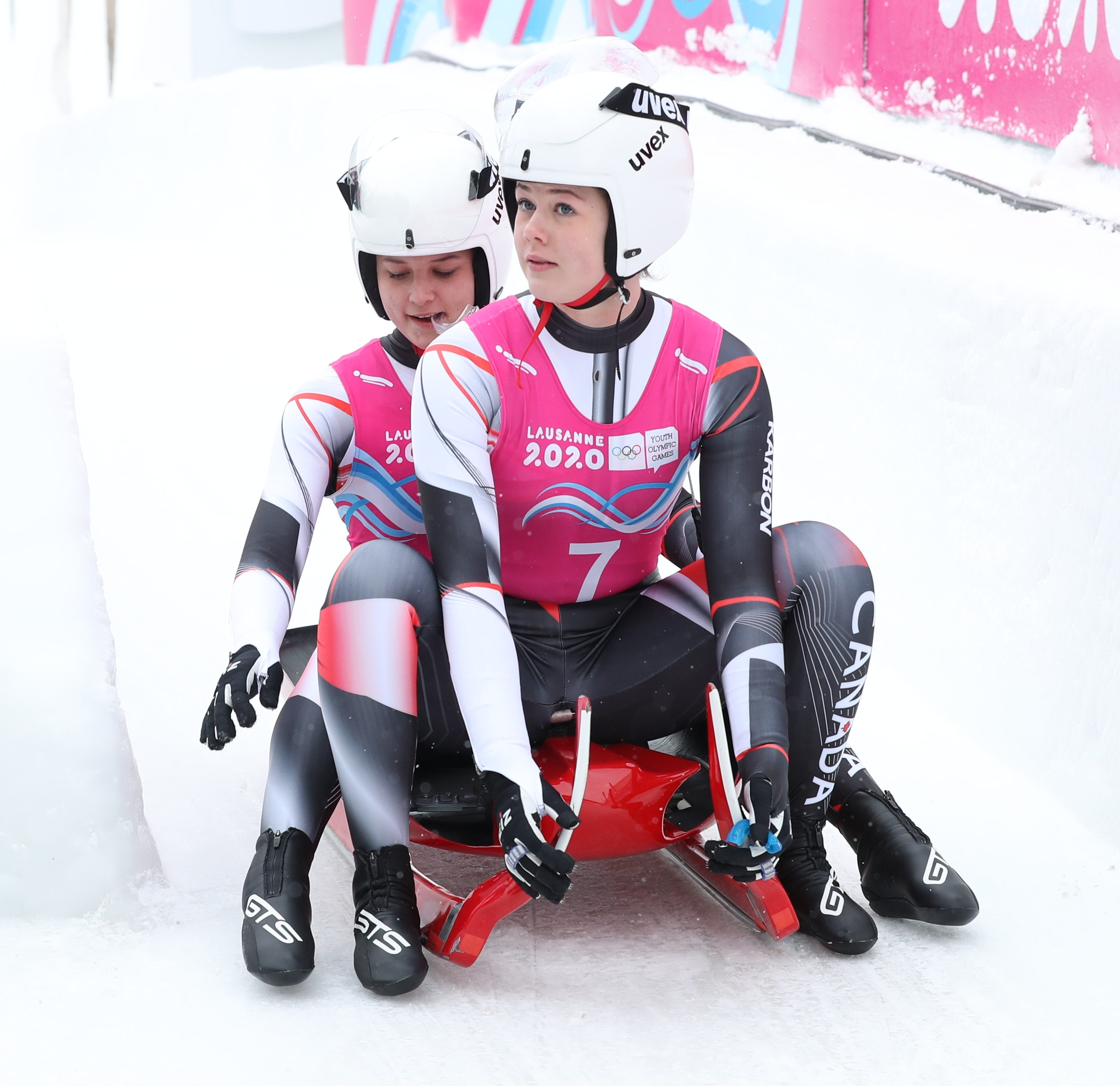 2nd run Luge Women's Double at the 2020 Winter Youth Olympics in Lausanne